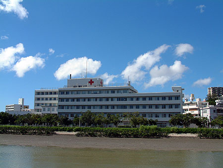 Okinawa Red Cross Hospital